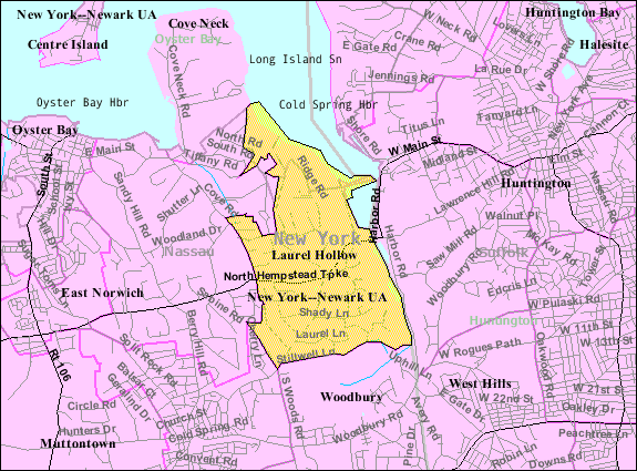 U.S. Census 2000 reference map for Laurel Hollow, New York